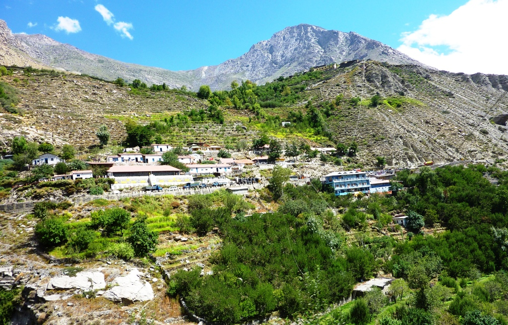 Phototaken by myself on recent trip